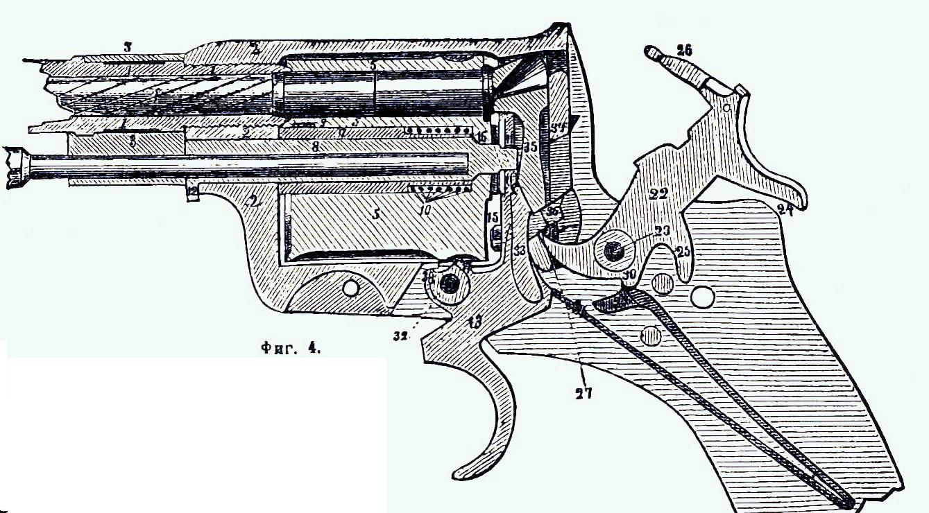 Illustration from Brockhaus and Efron Encyclopedic Dictionary (1890—1907)